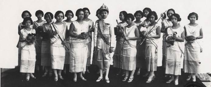 King Prajadhipok with the court ladies for the ceremony of the Assumption of the Residence on 25 February 1926.